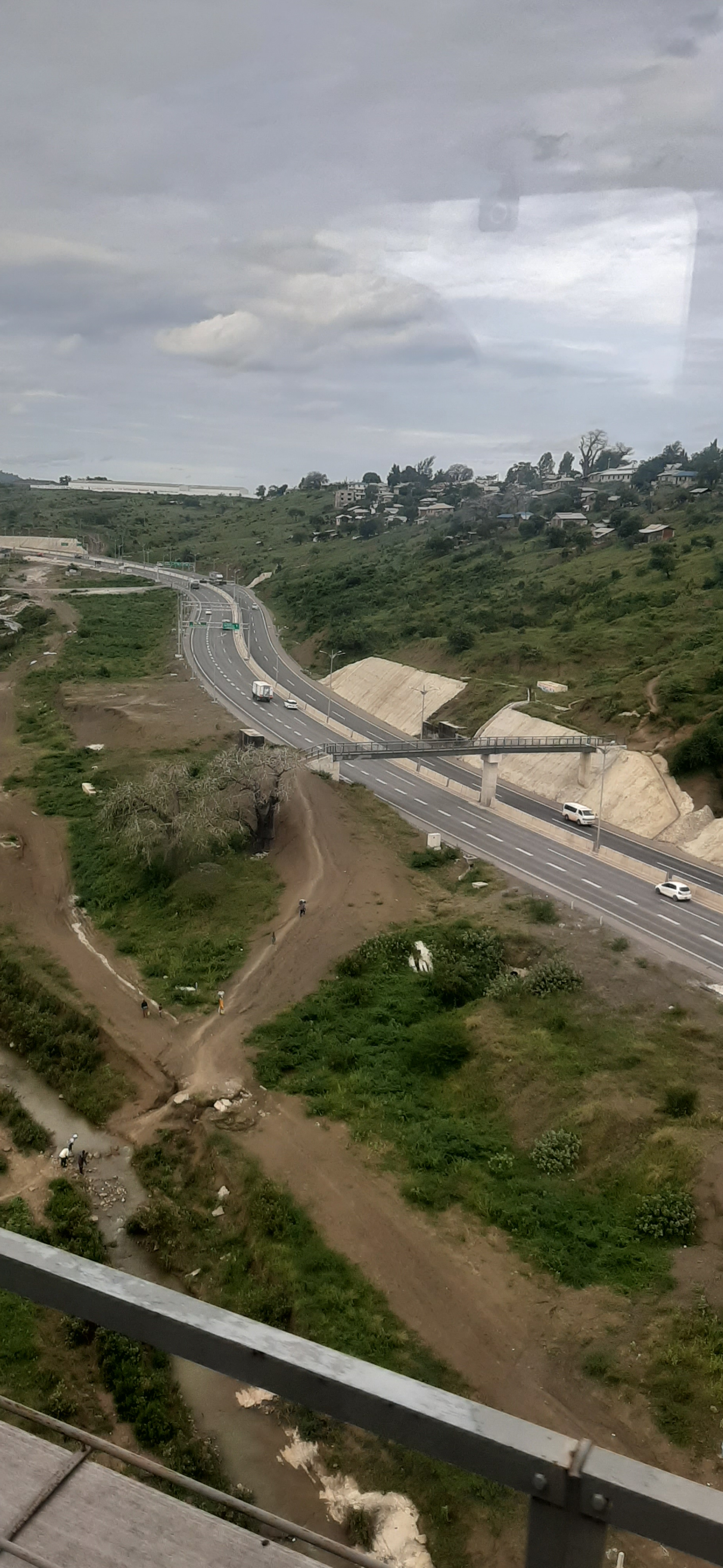 This is an image with the theme "Africa on the Move or Transport" from: Kenya